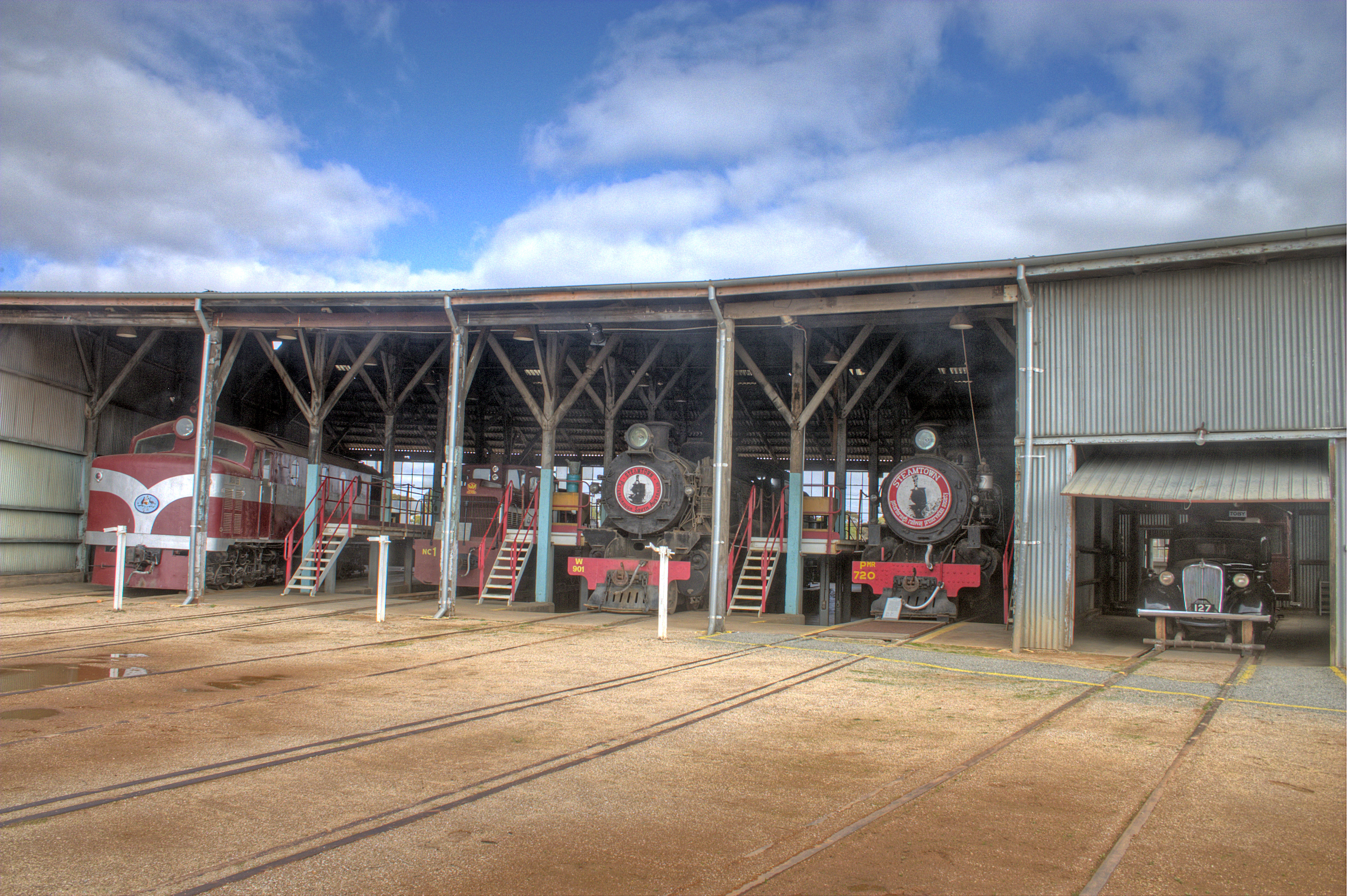 This is a view of part of the roundhouse located at the Steamtown Heritage Rail Centre. In this view can be seen the SAR Motor Inspection Car in its garage. Left to right: NSU 55, NC 1 (both ex Commonwealth Railways), W 901 and Pmr 720 (both ex Western Australian Government Railways).